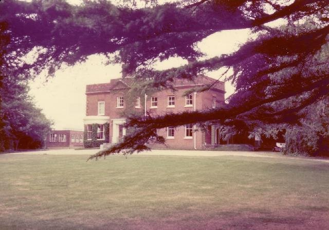 Scratby Hall, English County of Norfolk. In use as Duncan Hall School when photo created.